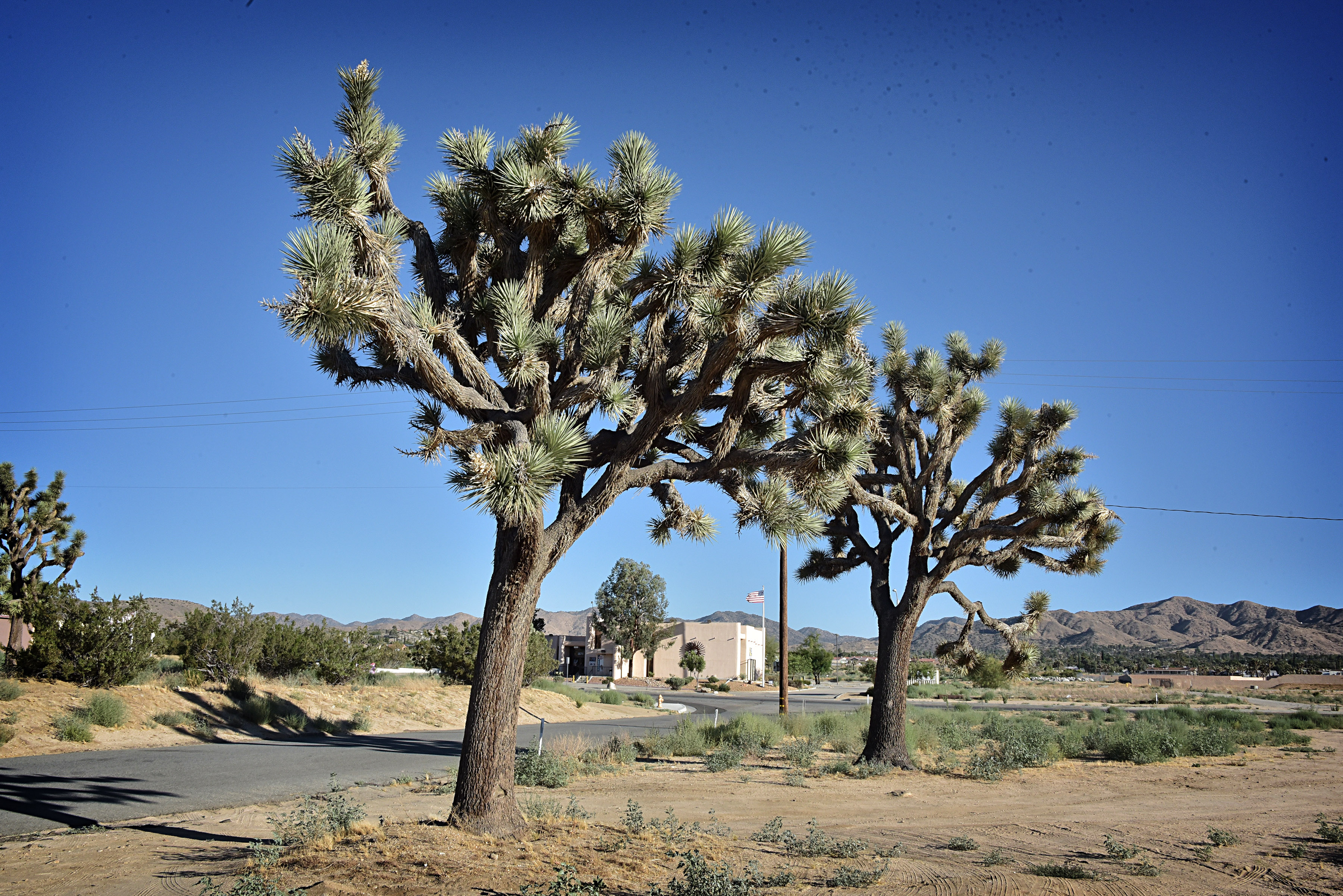 Yucca Valley looking south with the Visitor Center in Background in June 2017- Photo by Glenn Francis of